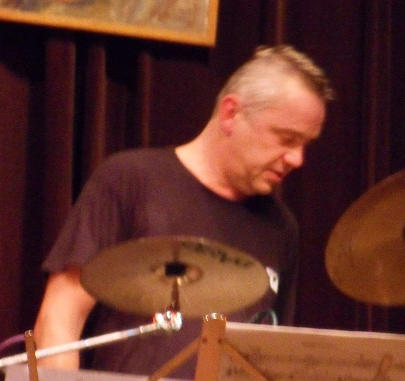 Jan Seidl, drummer of Czech band Futurum, Brno, Czech Republic